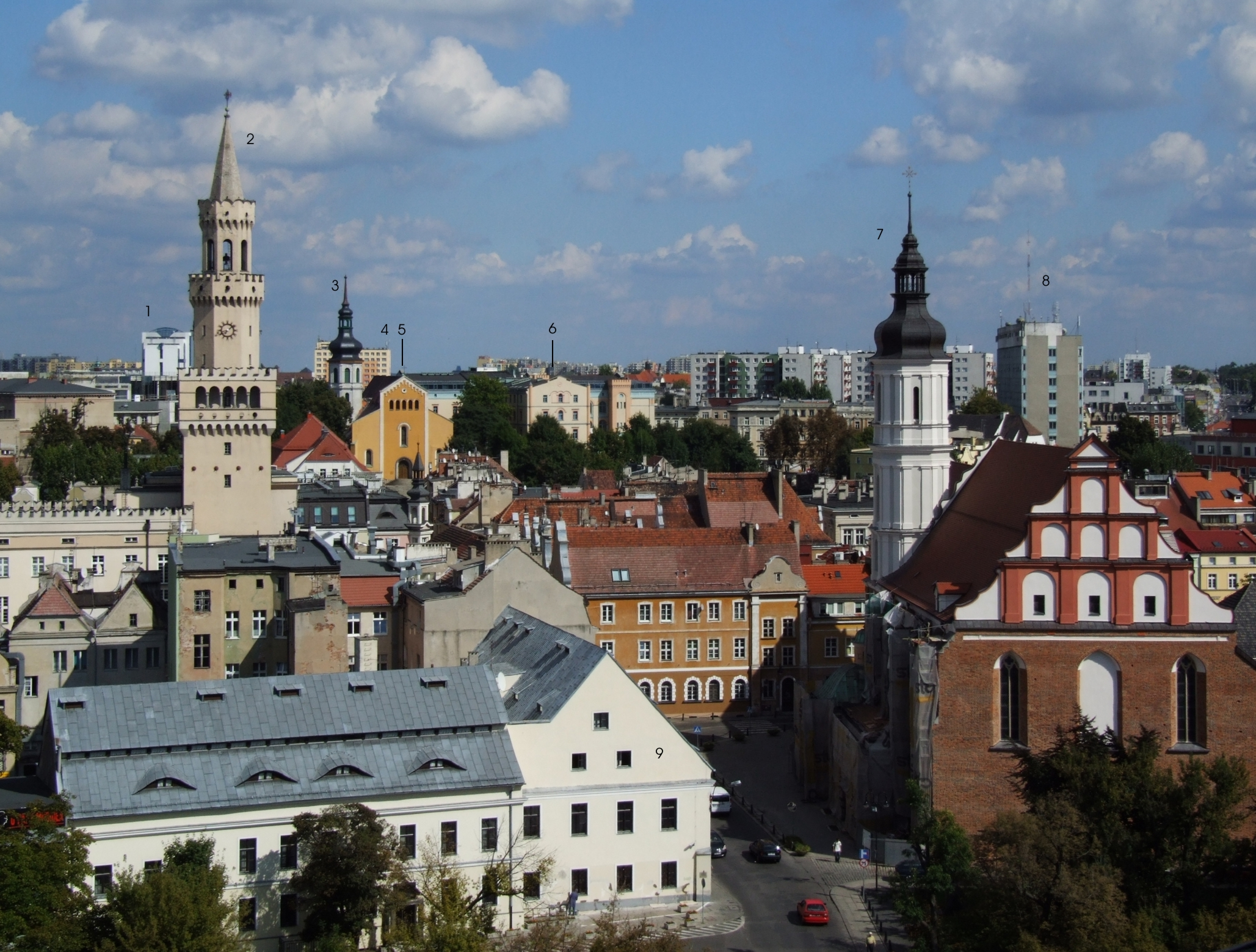 Old City in Opole (Oppeln). 1 - Dormitory "Niechcic", University of Opole 2 - City hall 3 - Tower of Church of Our Lady of Sorrows and Saint Adalbert 4 - Dormitory "Kmicic", University of Opole 5 - Church of Our Lady of Sorrows and Saint Adalbert 6 - Colegium Maius - main bulding of University Opole 7 - Church of Trinity 8 - "Skyscraper" PPS Społem on crossroad of Ozimska nad Reymonta streets 9 - Bulding of archive